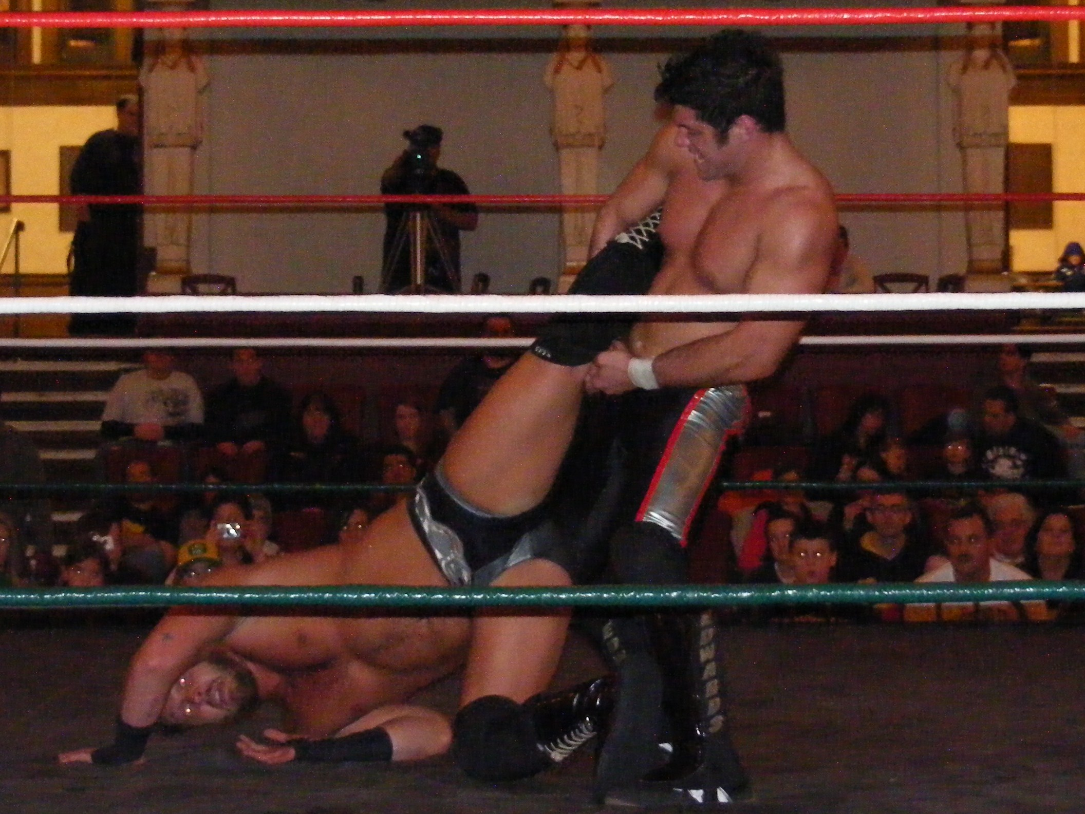 Eddie Edwards putting his 'Achilles Lock' hold on Brian Fury.